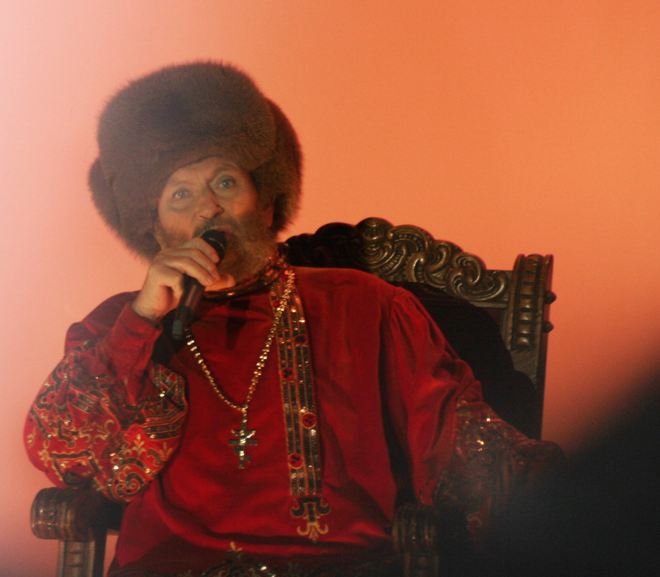 A walk concert in Abbaye de la Cambre, in Brussels Ixelles